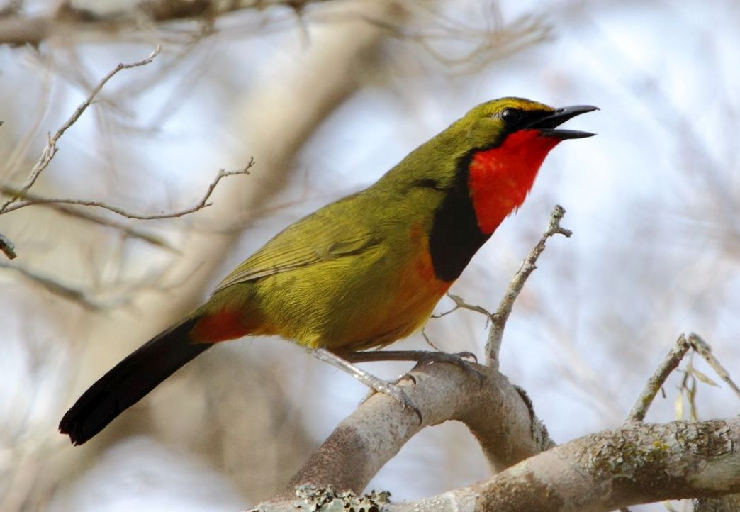 Gorgeous Bush-Shrike, Telophorus viridis quadricolor. Mkhuze Game Reserve, KwaZulu-Natal.